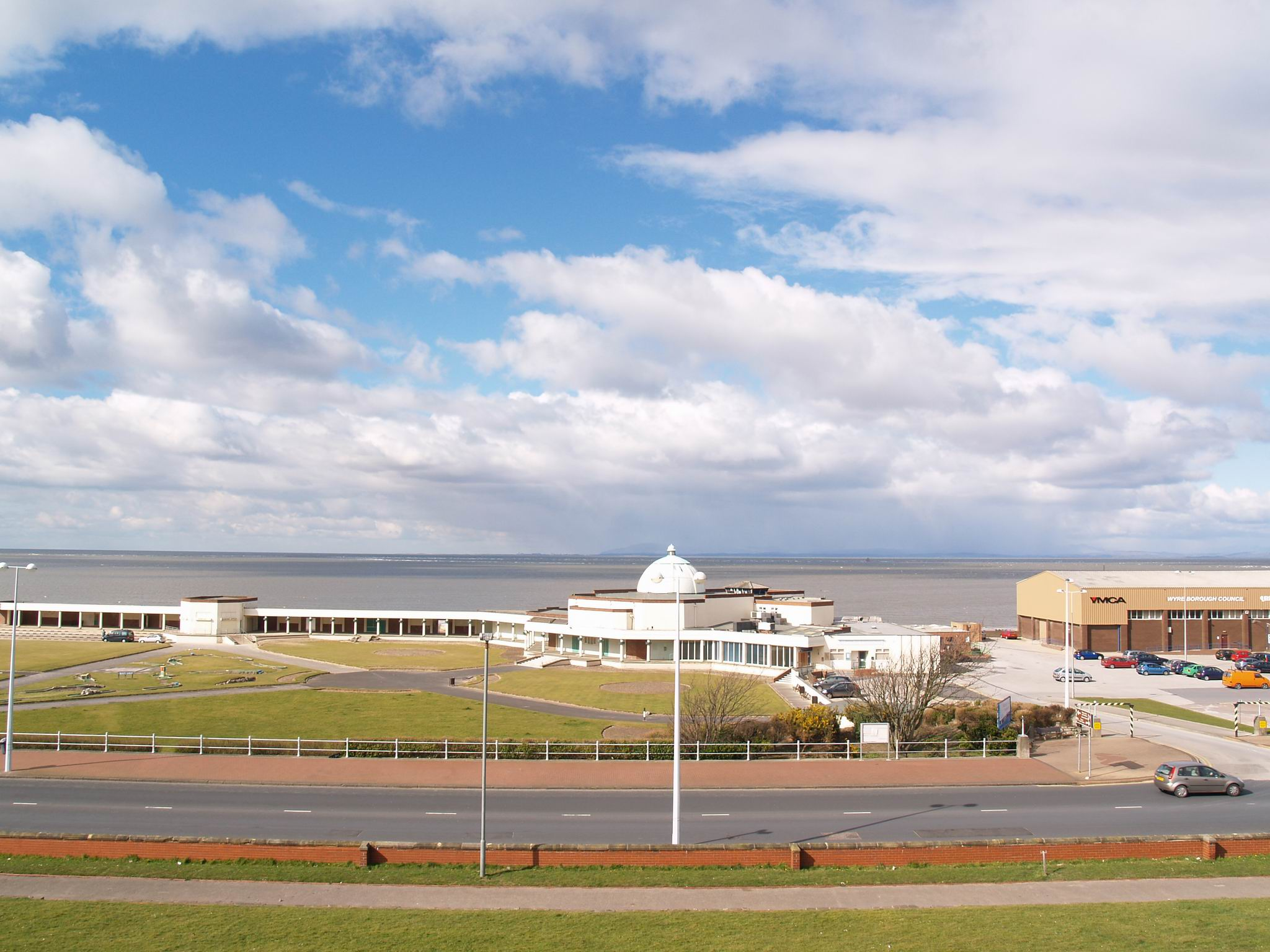 Fleetwood-Mar 2008-Marine Hall and Gardens from the Mount